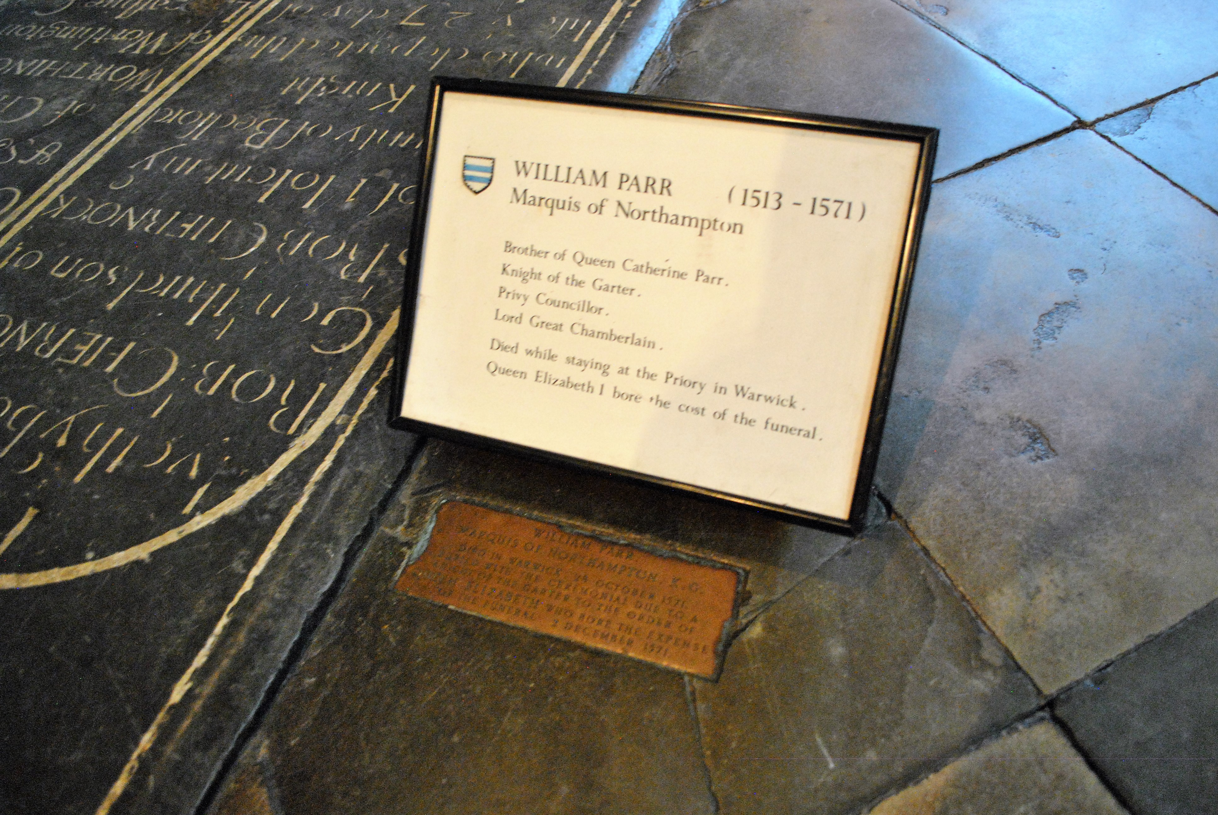 William Parr, 1st Marquess of Northampton